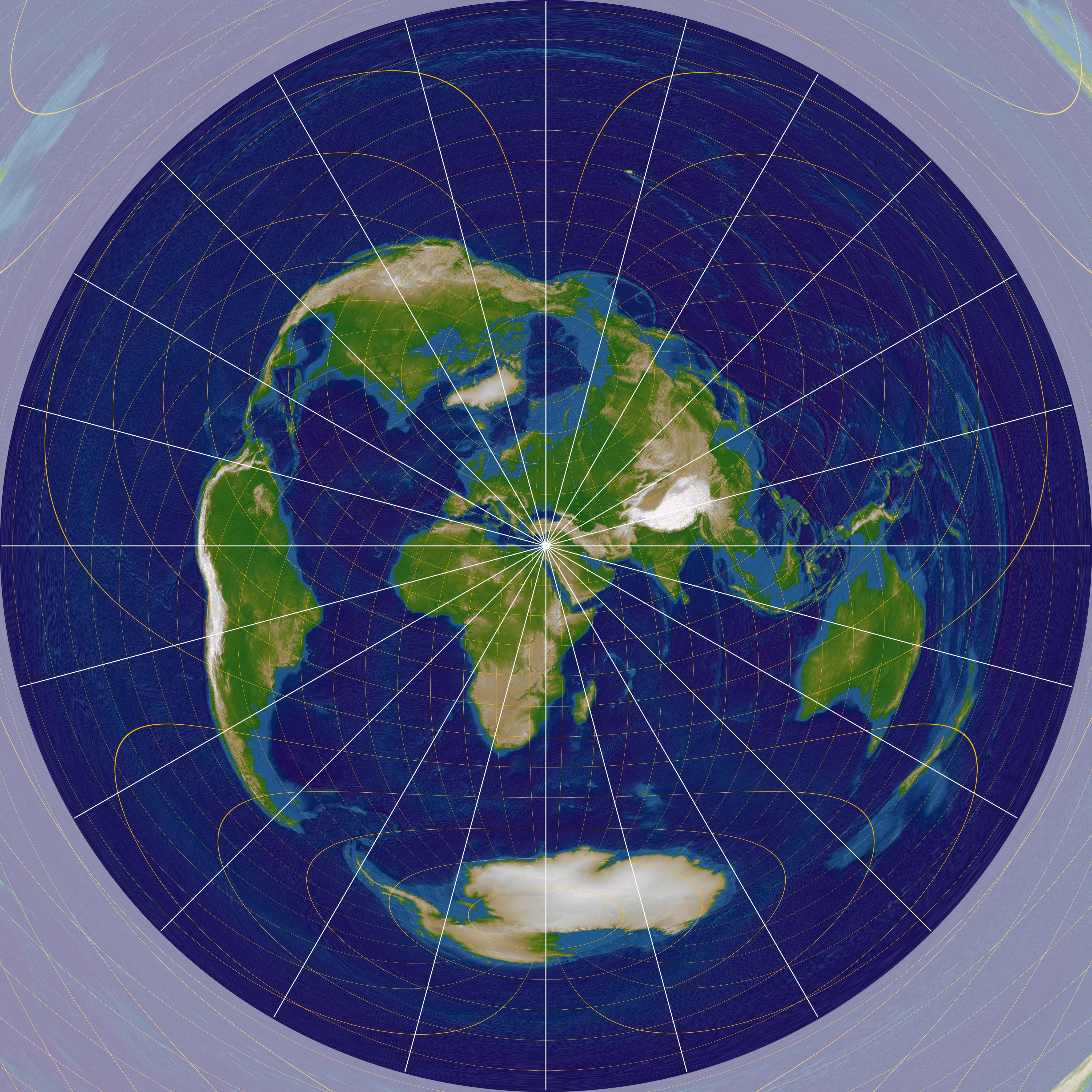 Equidistant world map, centered to the Shrine of Bahá'u'lláh to visualize the Qiblih, the direction of prayer for Bahá'ís.